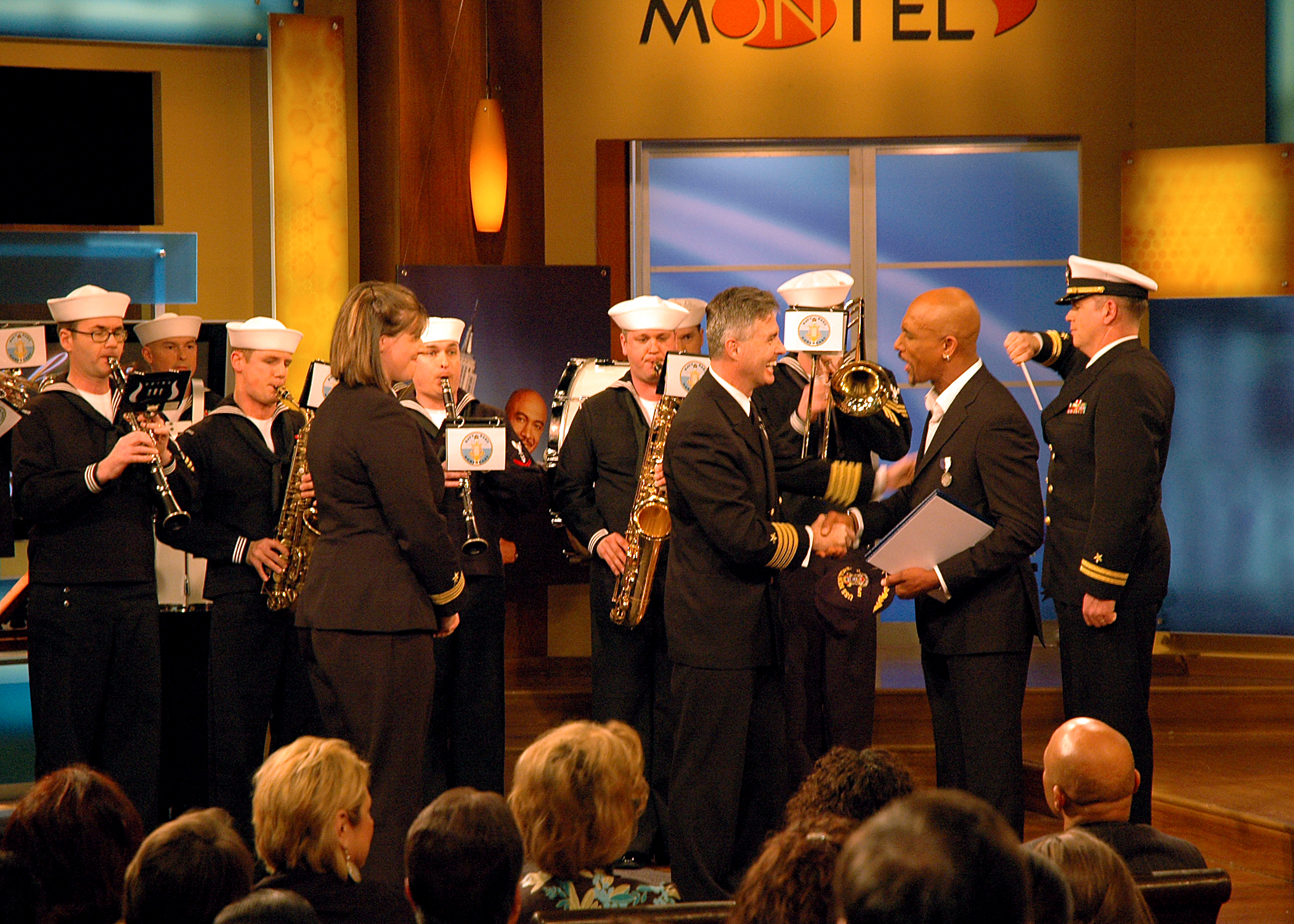 Rear Adm. (sel) Kenneth J. Braithwaite, director of Joint Public Affairs Support Element-Reserve presents the Department of the Navy Superior Public Service Award (DON SPSA) to Montel Williams for his continuous support and recognition of service members and their families throughout his 17 years in television. The Superior Public Service Award is the second highest award presented to civilians by the Department of the Navy. U.S. Navy photo by (Released)